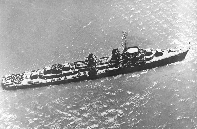 Aerial view of the U.S. Navy destroyer USS Heermann (DD-532), circa in 1943.